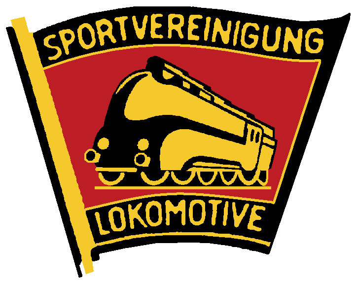 The logo of the SV Lokomotive is not considered as "work of authorship" because it only consists of text in a simple typeface "Lokomotive", so it is not an object of copyright in respect to US law. However, this logo is still protected by trademark laws.